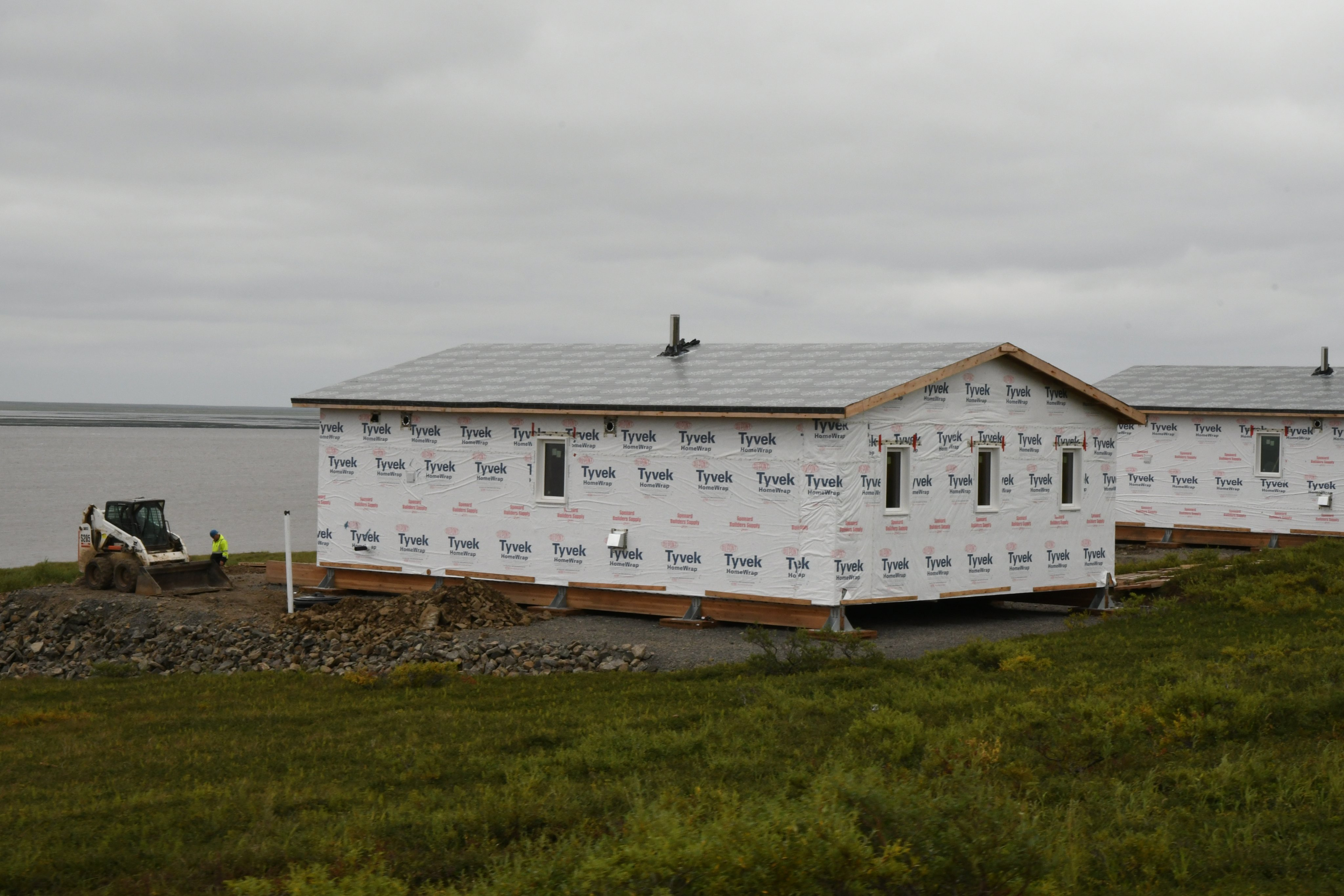 The house pads are constructed through tundra to bedrock in order to provide a freeze-thaw stable platform. This will help build upon the progress already being made to assist the community in their village relocation efforts.